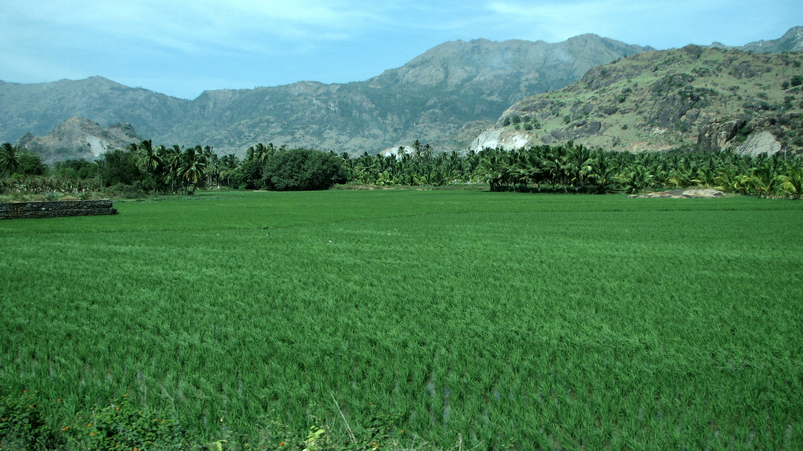 self-made image ; Author's Name : Infocaster